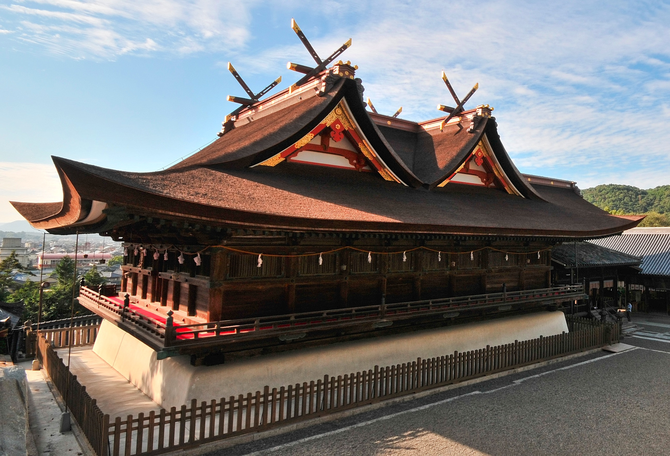 A variation of an irimoya roof called a hiyoku irimoya-zukuri is a defining feature of the Kibitsu-zukuri style of architecture. Kibitsu jinja